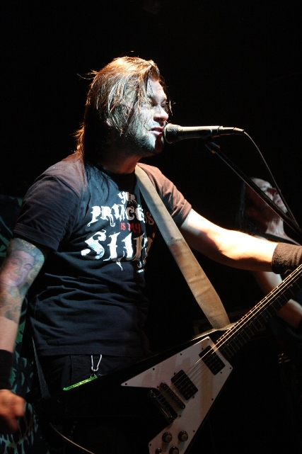 Aleksander "Olass" Mendyk